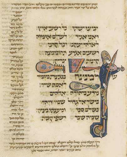 Psalm 76 - With string-music. 'In Judah is God known; His name is great in Israel.'